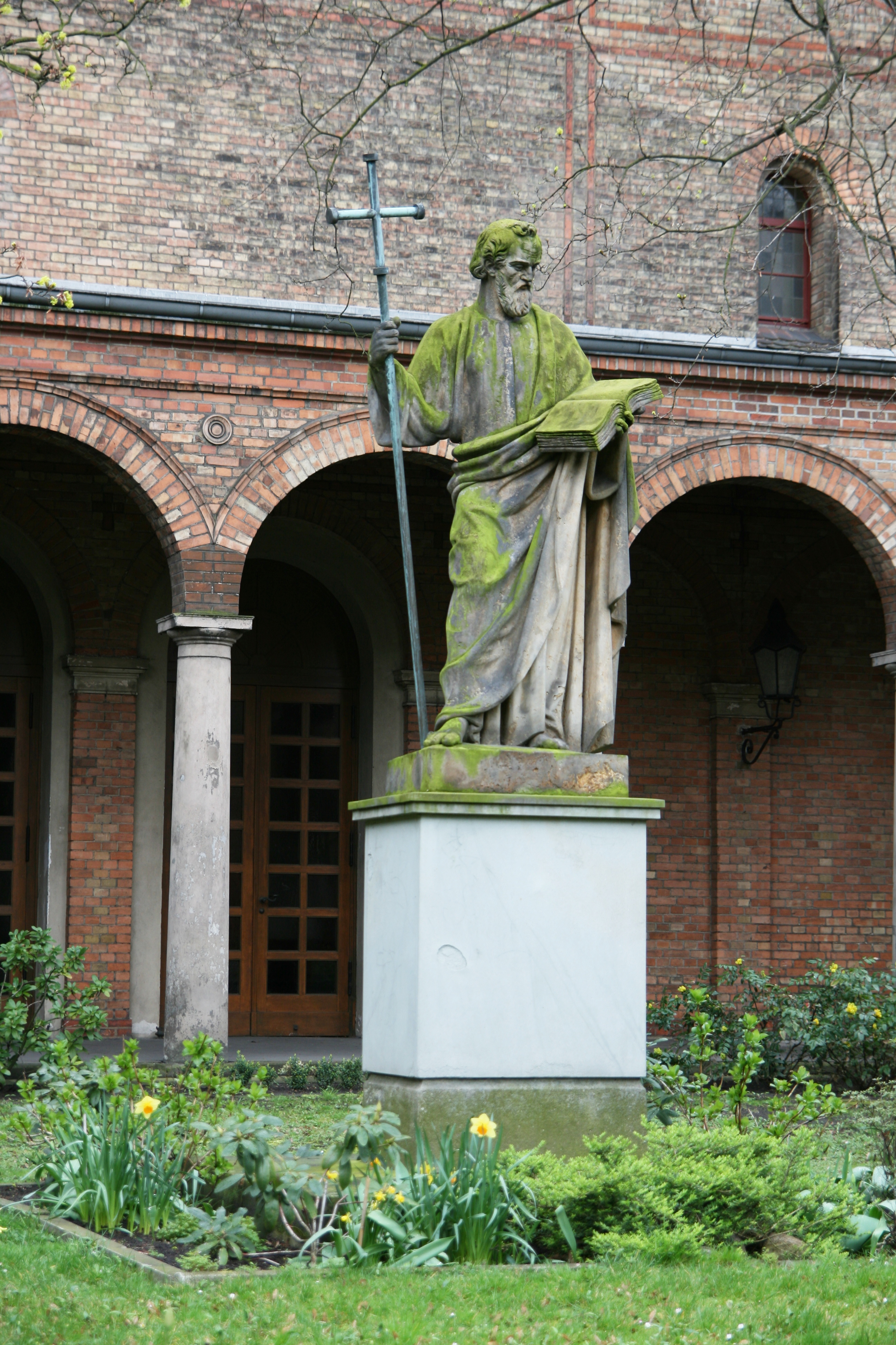 Statue of James the Greater by Emil Alexander Hopfgarten in front of the St.-Jacobi-Kirche in Berlin, Germany